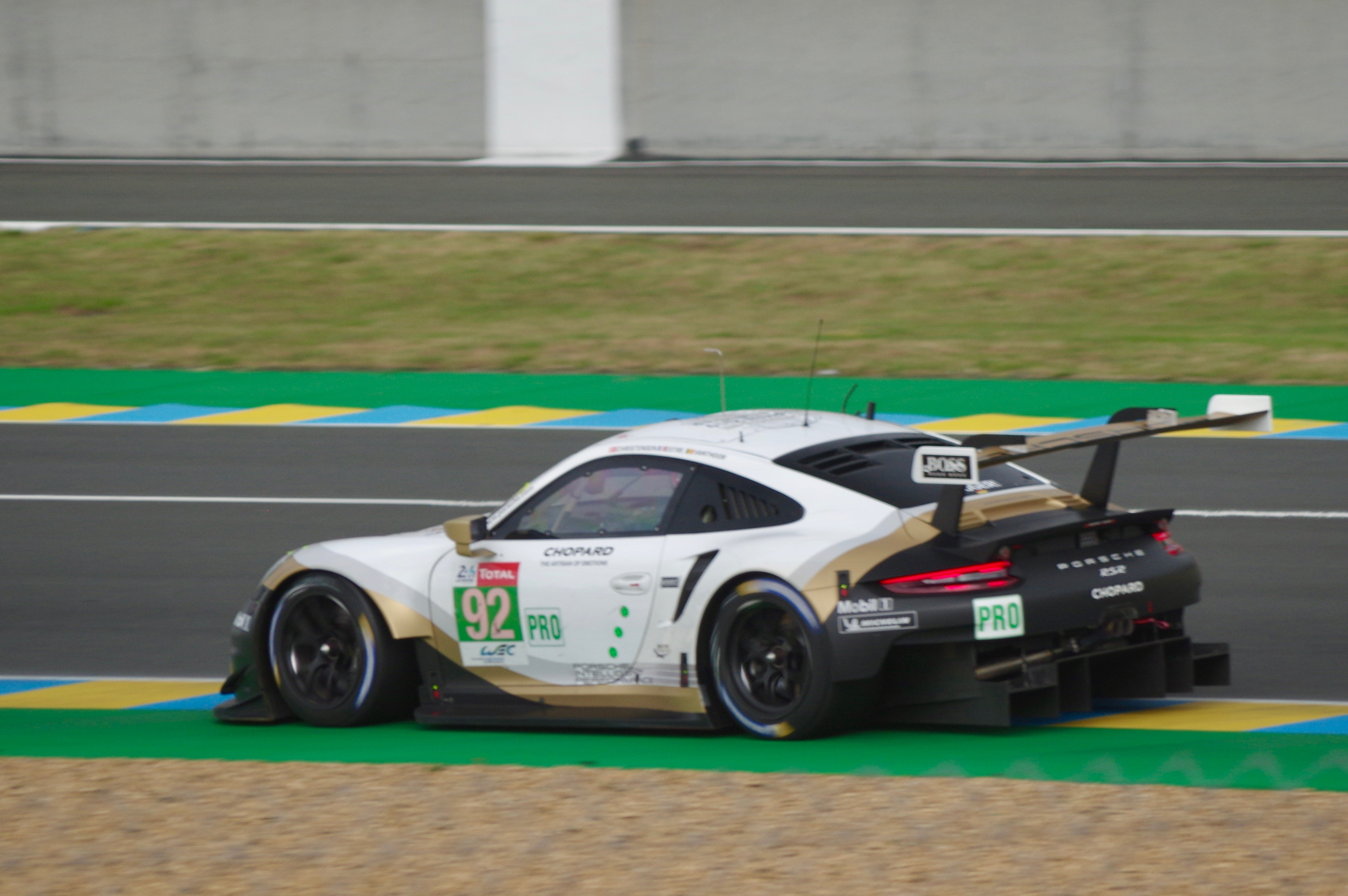 Porsche GT Team's Porsche 911 RSR driven by Michael Christensen, Kevin Estre and Laurens Vanthoor at the 2019 24 Hours of Le Mans.